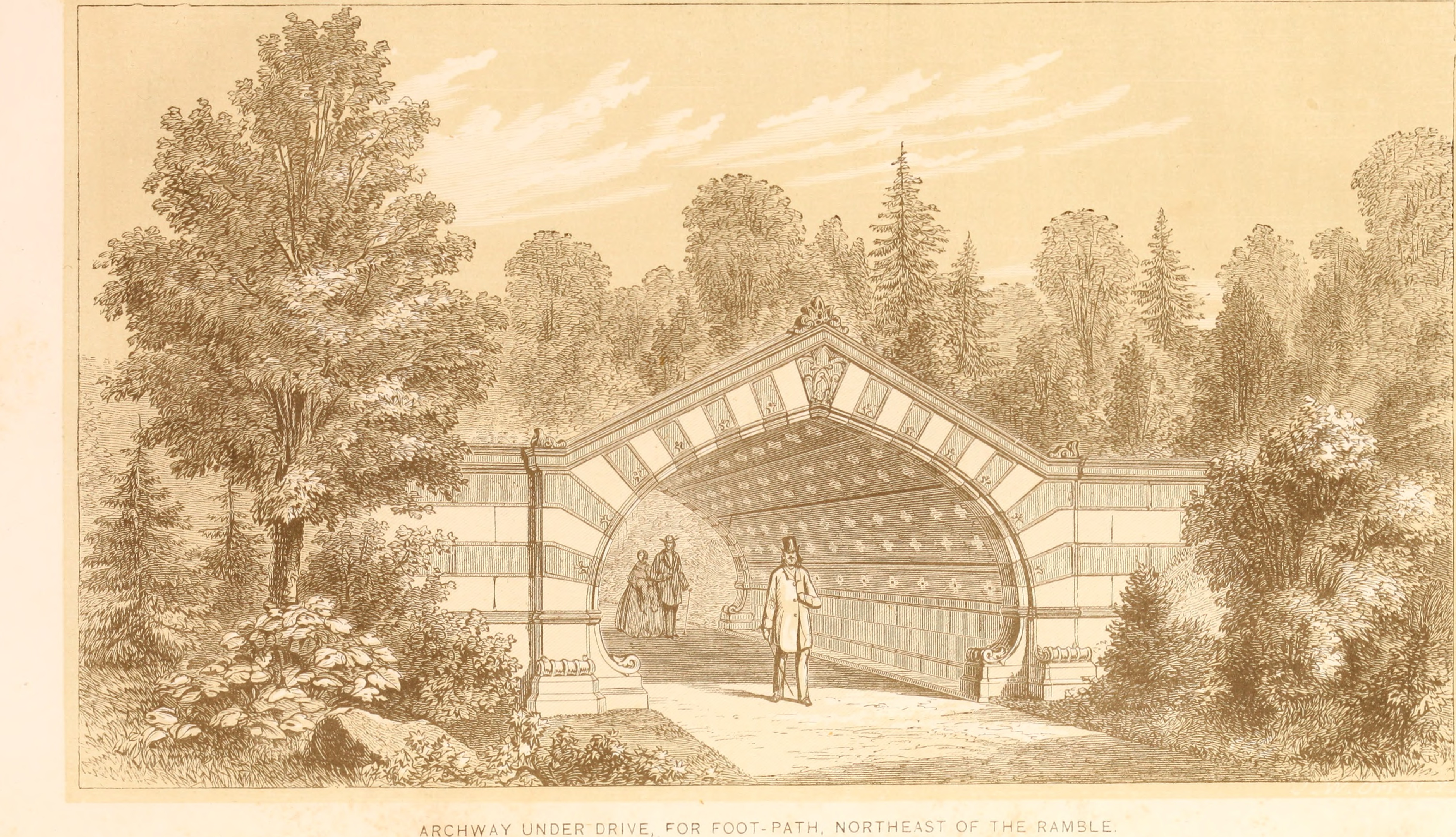 Title: Annual report of the Board of Commissioners of the Central Park Year: 1858 (1850s) Authors: New York (N. Y. ). Board of Commissioners of the Central Park Subjects: Publisher: [New York : s. n. ] Text Appearing Before Image: ' Text Appearing After Image: '